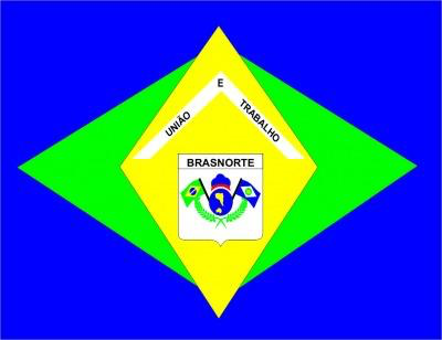 Bandeira de Brasnorte